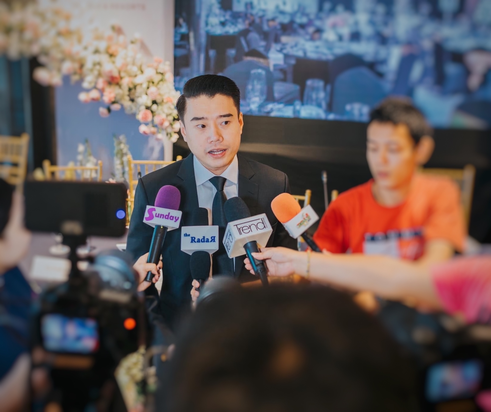 Singer Ah Boy